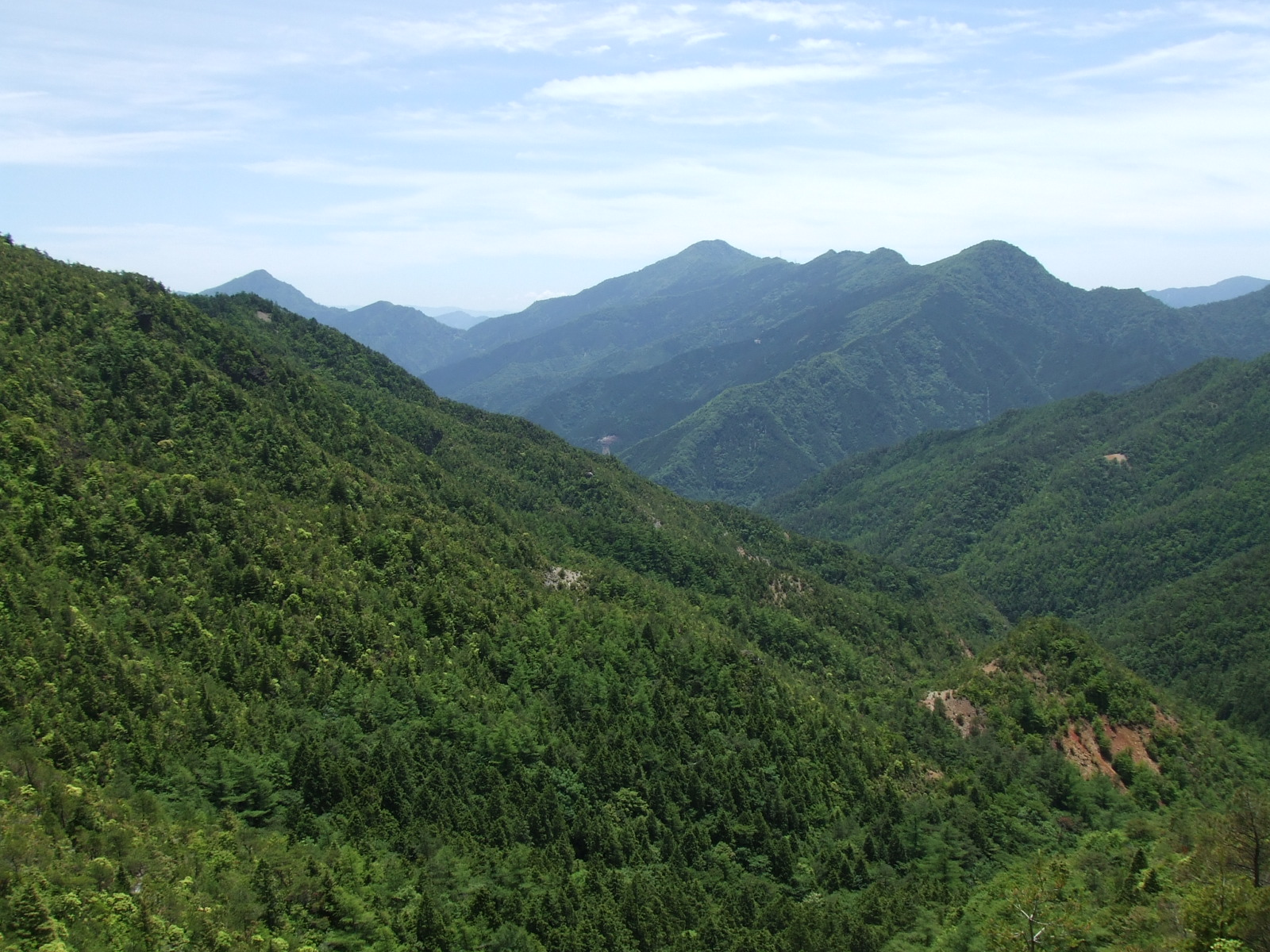 Mount Ozare as seen forom the WNW in Kochi Prefecture, Shikoku, Japan.